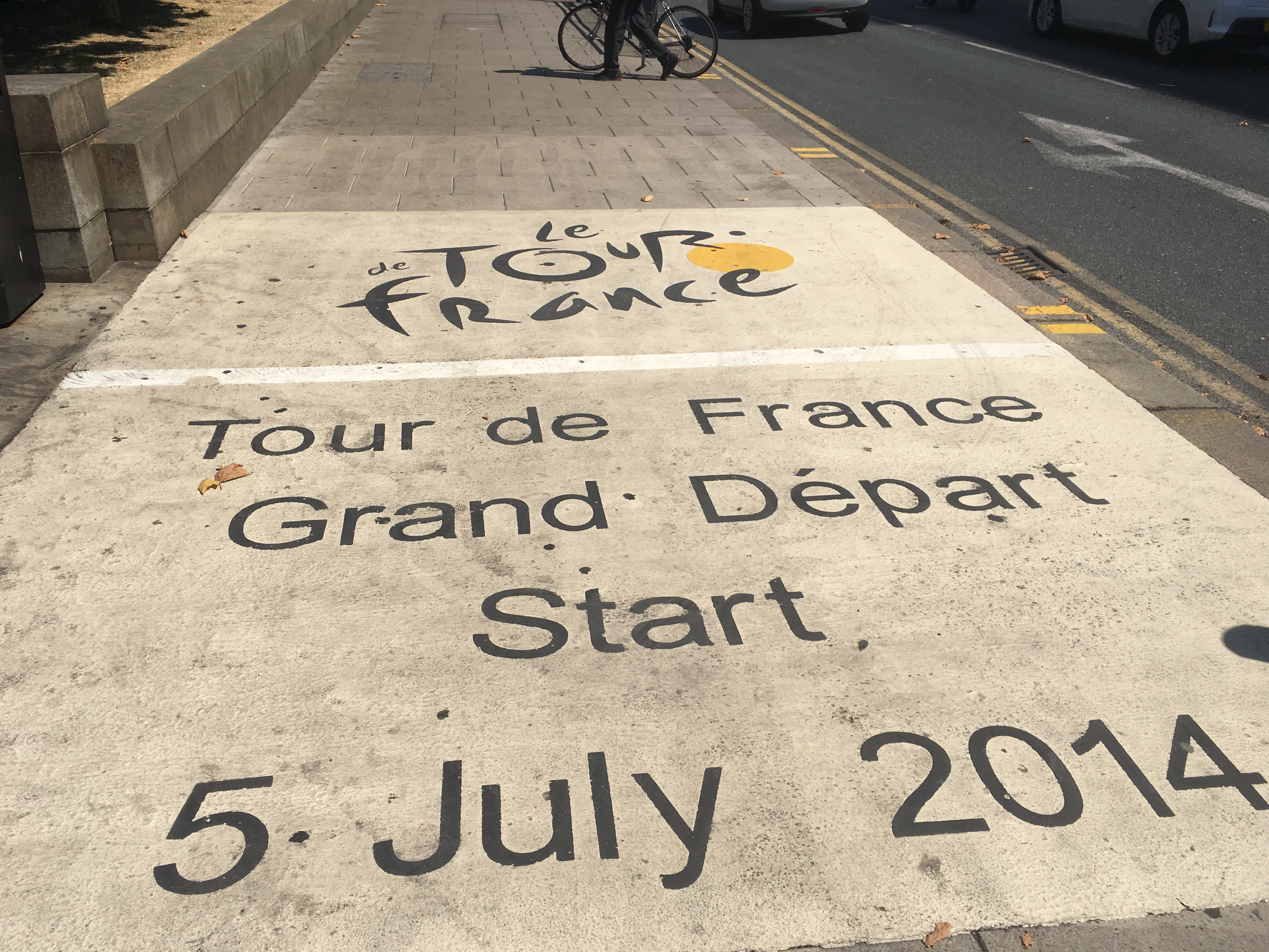 Tour de France grand depart